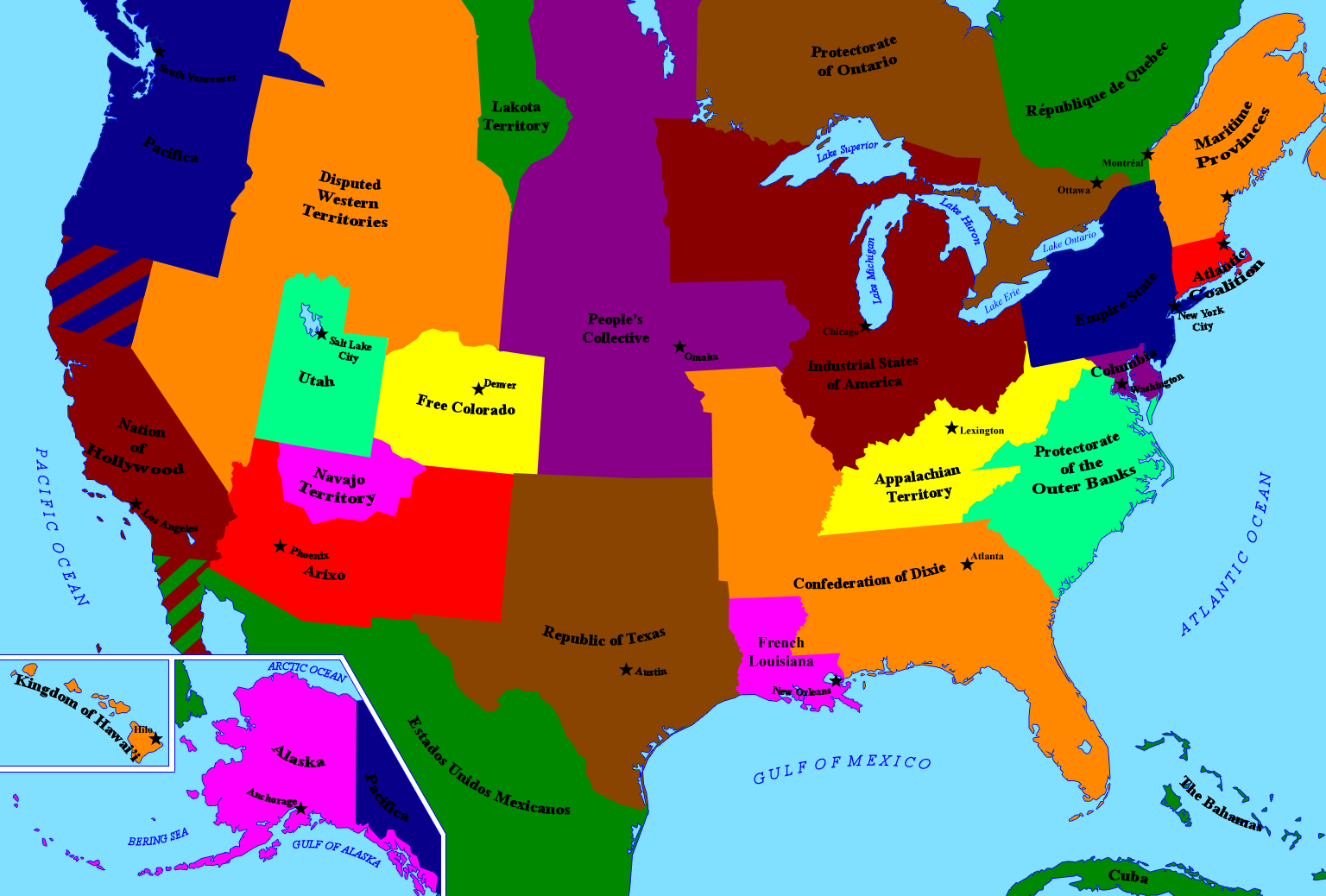 A map of the nations in Crimson Skies. Own work, made in Adobe Photoshop.